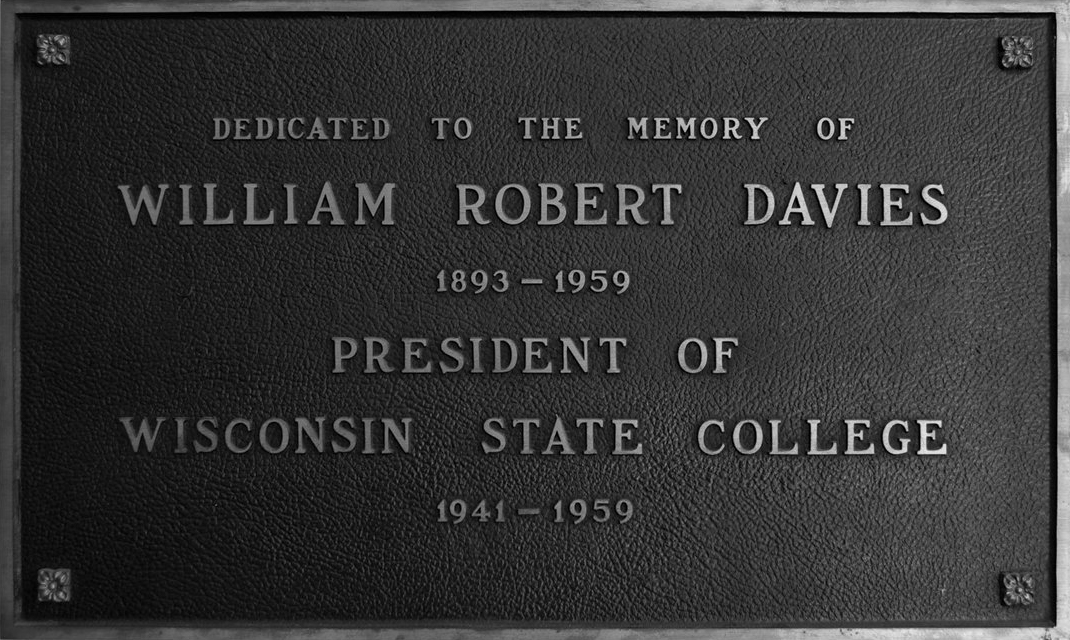 Bronze memorial plaque located at the south entrance of W. R. Davies University Center, the student center at the University of Wisconsin-Eau Claire. William R. Davies was the second president of the University of Wisconsin-Eau Claire, and the student center was named in his memory upon his death December 10, 1959. Davies Center was the first building on the campus to be named for an individual.